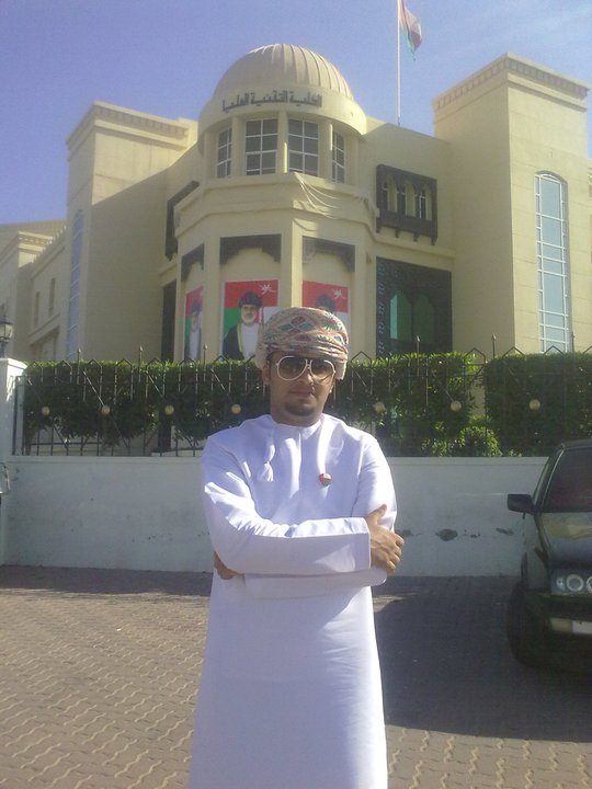 Me in-front of the New building of HCT.